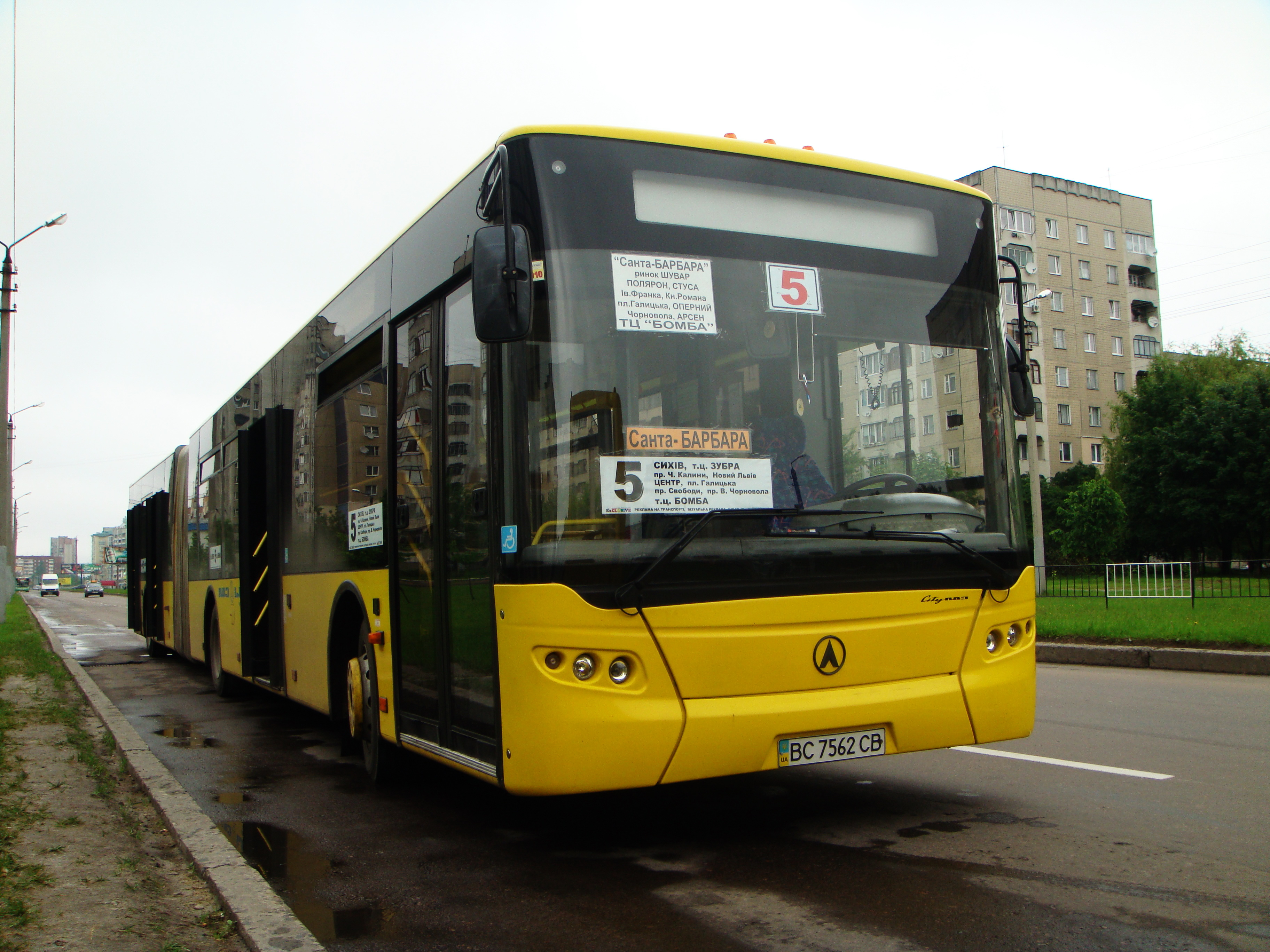 CityLAZ 20 (A292) bus (BC 7562 CB) in Lviv, Ukraine. Built 2009. ЛКП АТП №1 Львів operator.